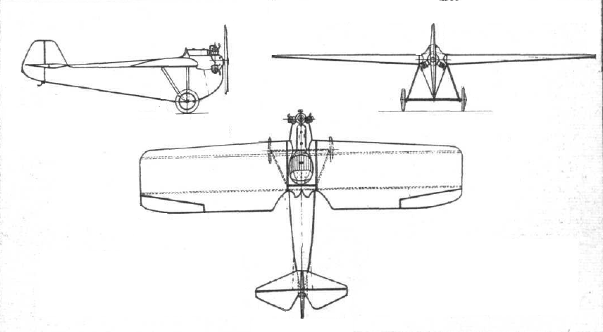 The Carley C.12, general arrangement. 20 hp Anzani engine